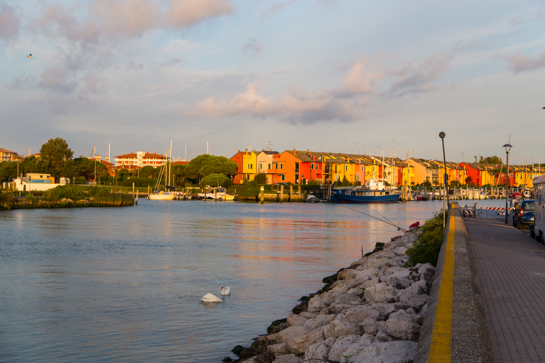 30021 Caorle, Metropolitan City of Venice, Italy